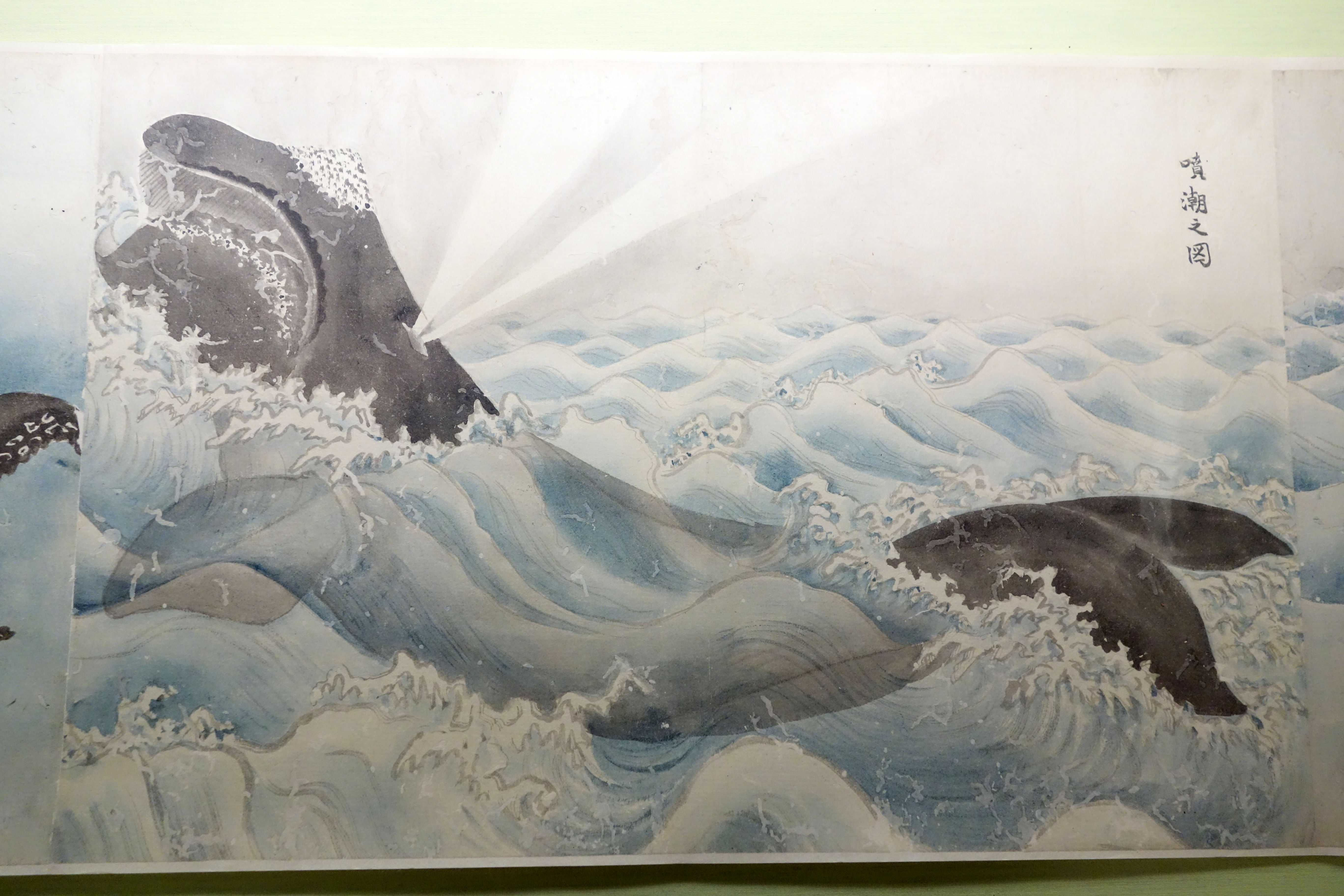 Exhibit in the Tokyo National Museum, Tokyo, Japan. This artwork is old enough so that it is in the public domain.